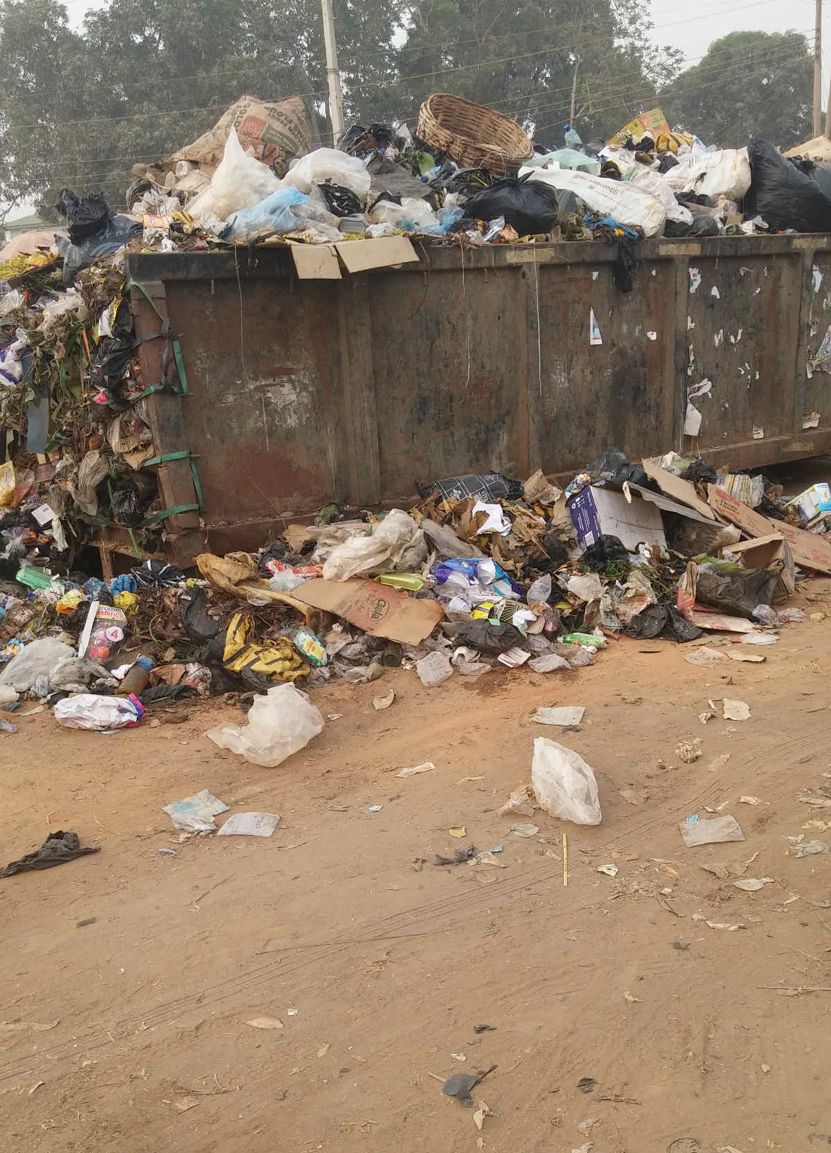 Refuse skip at Osisioma